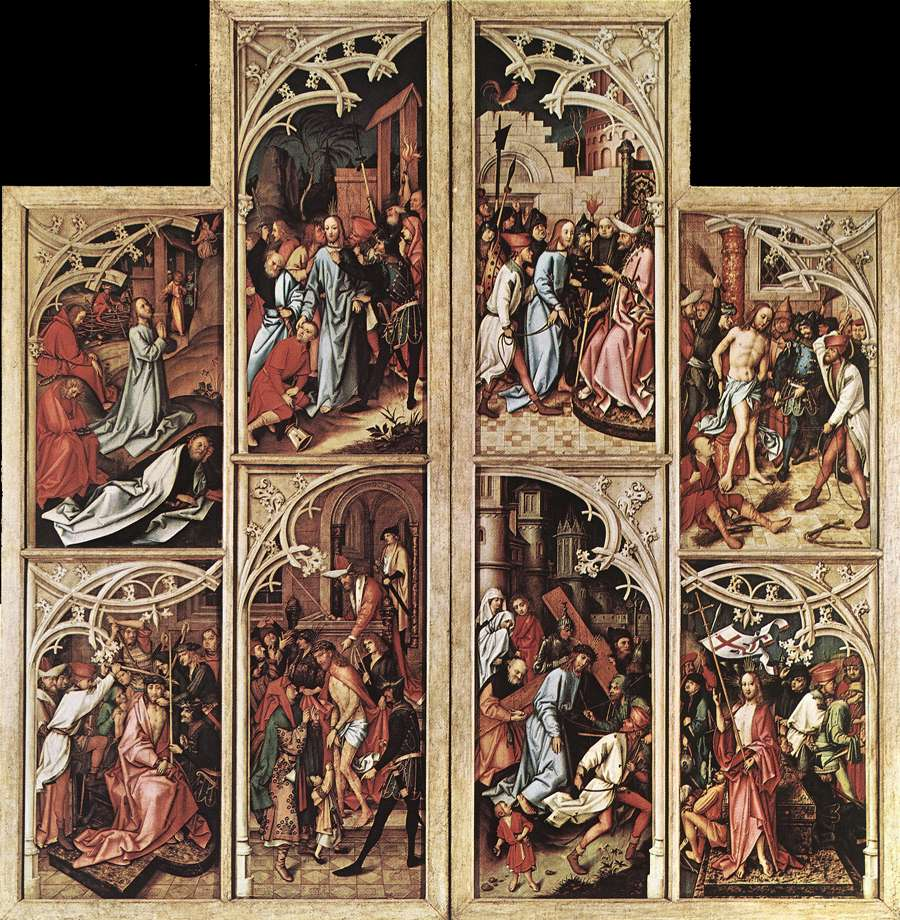 Wings of the Kaisheim Altarpiece